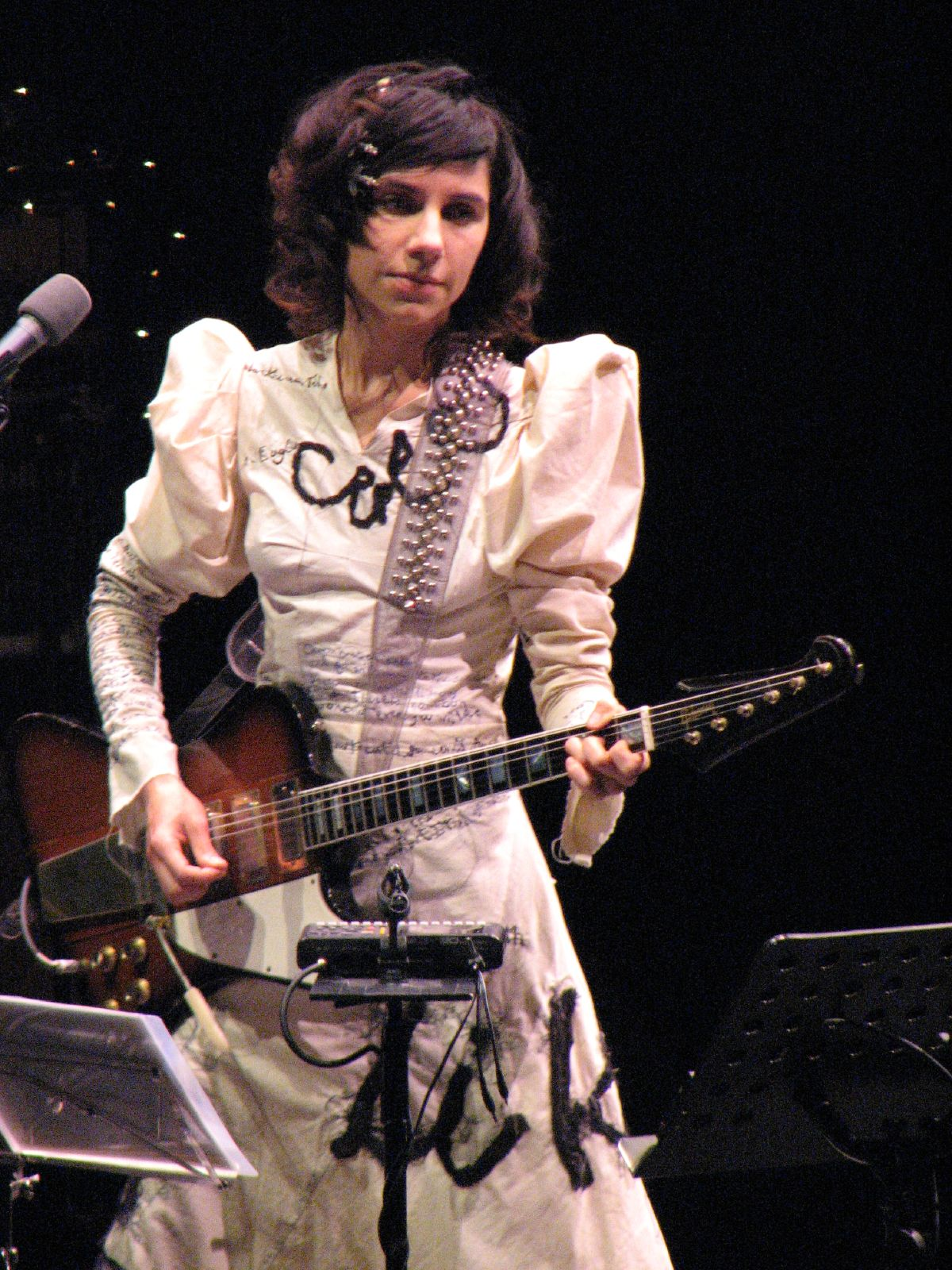 PJ Harvey at the Royal Festival Hall, London - 29.09.2007